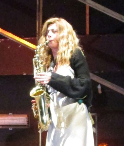 Benedicta Boccoli playing sax in Crimini del cuore (Beth Henley), at Teatro san babila of Milan, on May, 1st, 2015